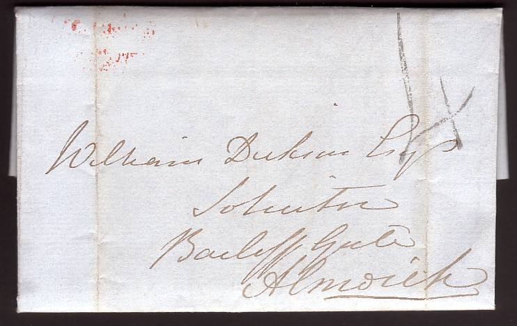 Second day use of Uniform Fourpenny Post used in Scotland with handstruck 4 of Edinburgh to Alnwick